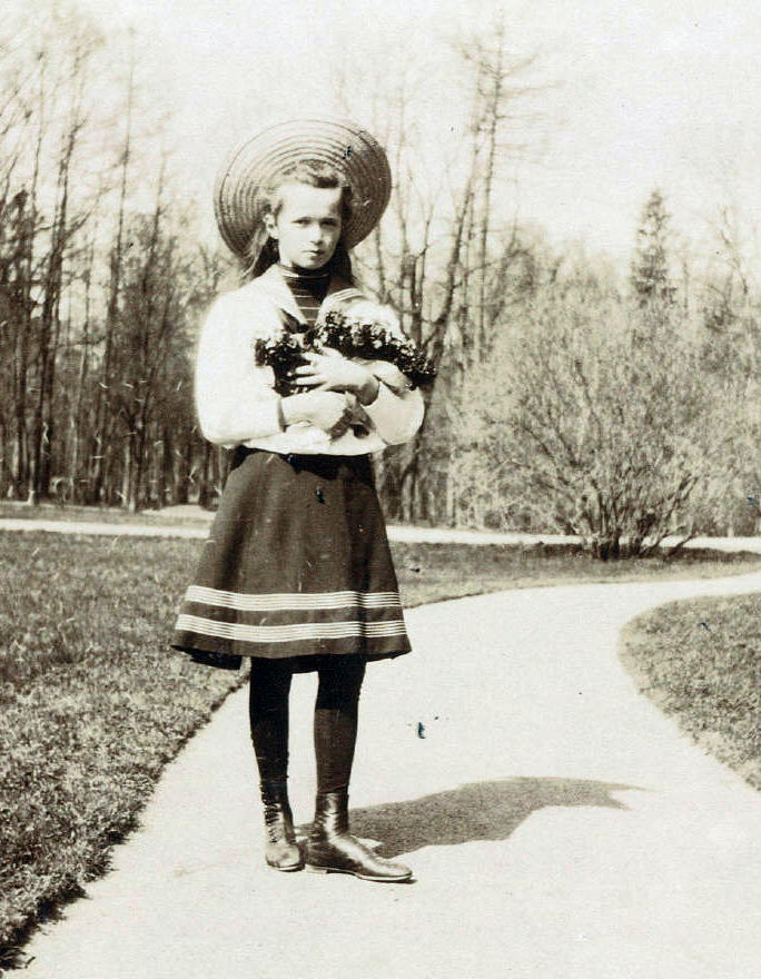 This photo of Grand Duchess Olga Nikolaevna of Russia is a cropped version of a photo from the Beinecke Library and can be used with attribution. The correct credit line is Romanov Collection, General Collection, Beinecke Rare Book and Manuscript Library, Yale University. The address is